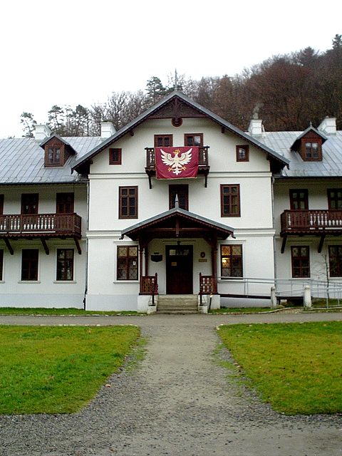 Ojcow in Poland